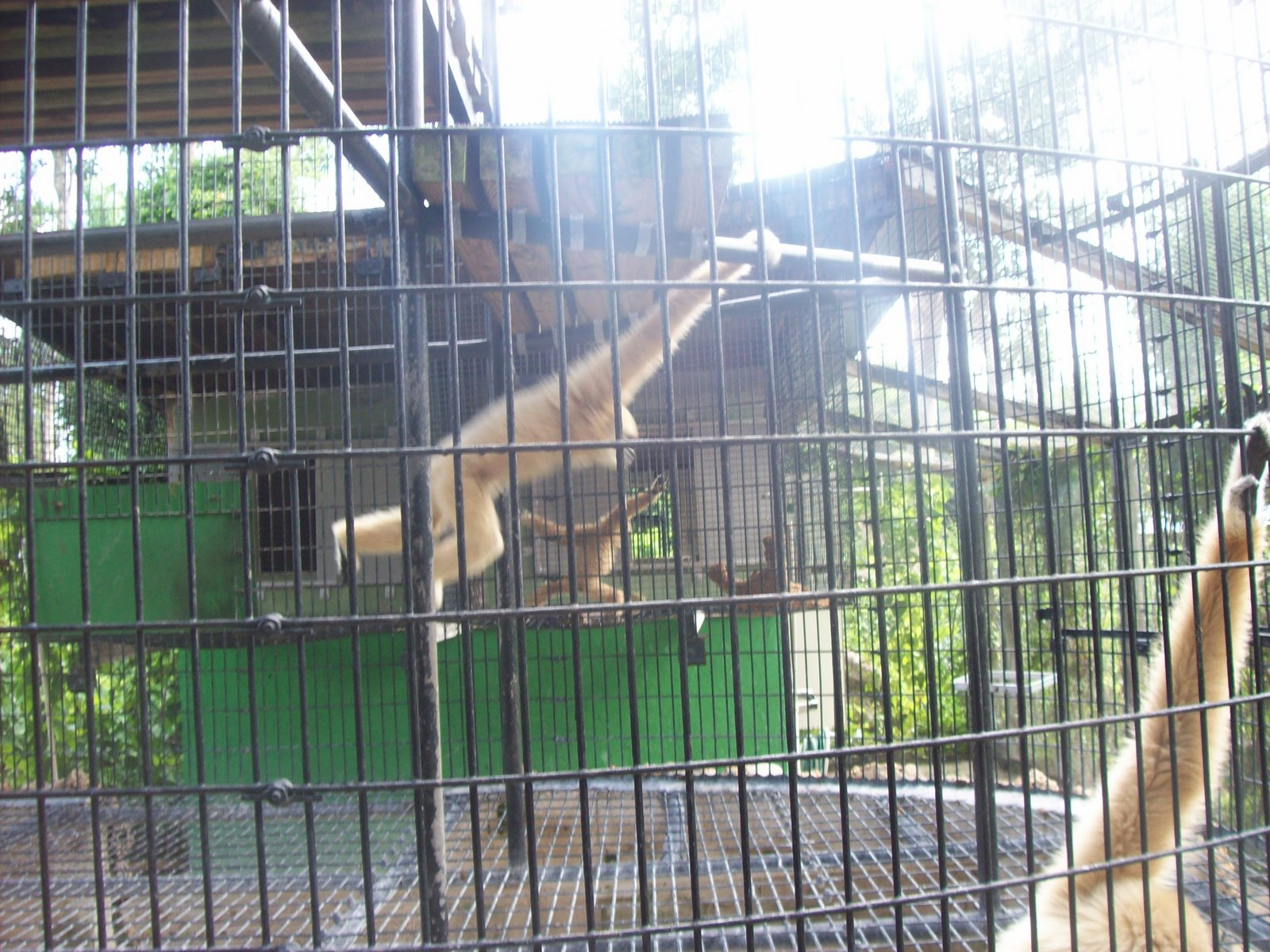 White-handed Gibbon brachiating, Monkey Jungle, Florida